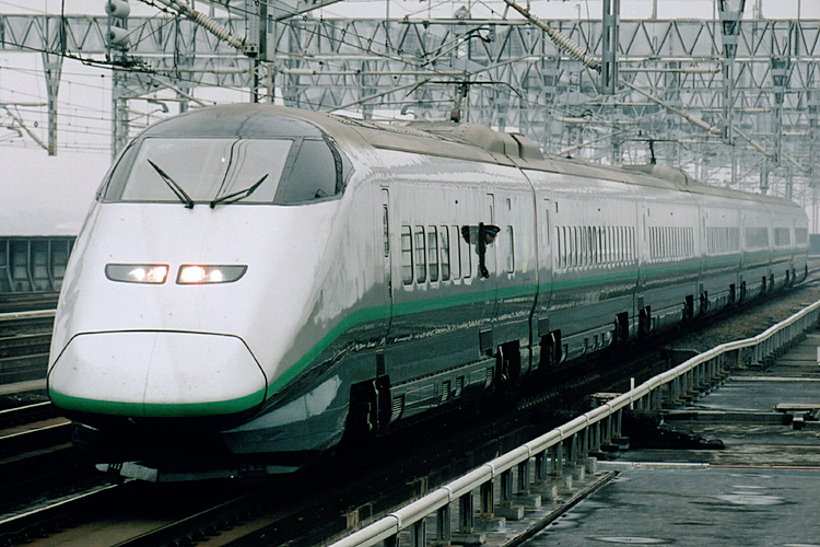 A JR East E3-1000 series shinkansen at approaching Omiya Station on a Yamagata Shinkansen Tsubasa service